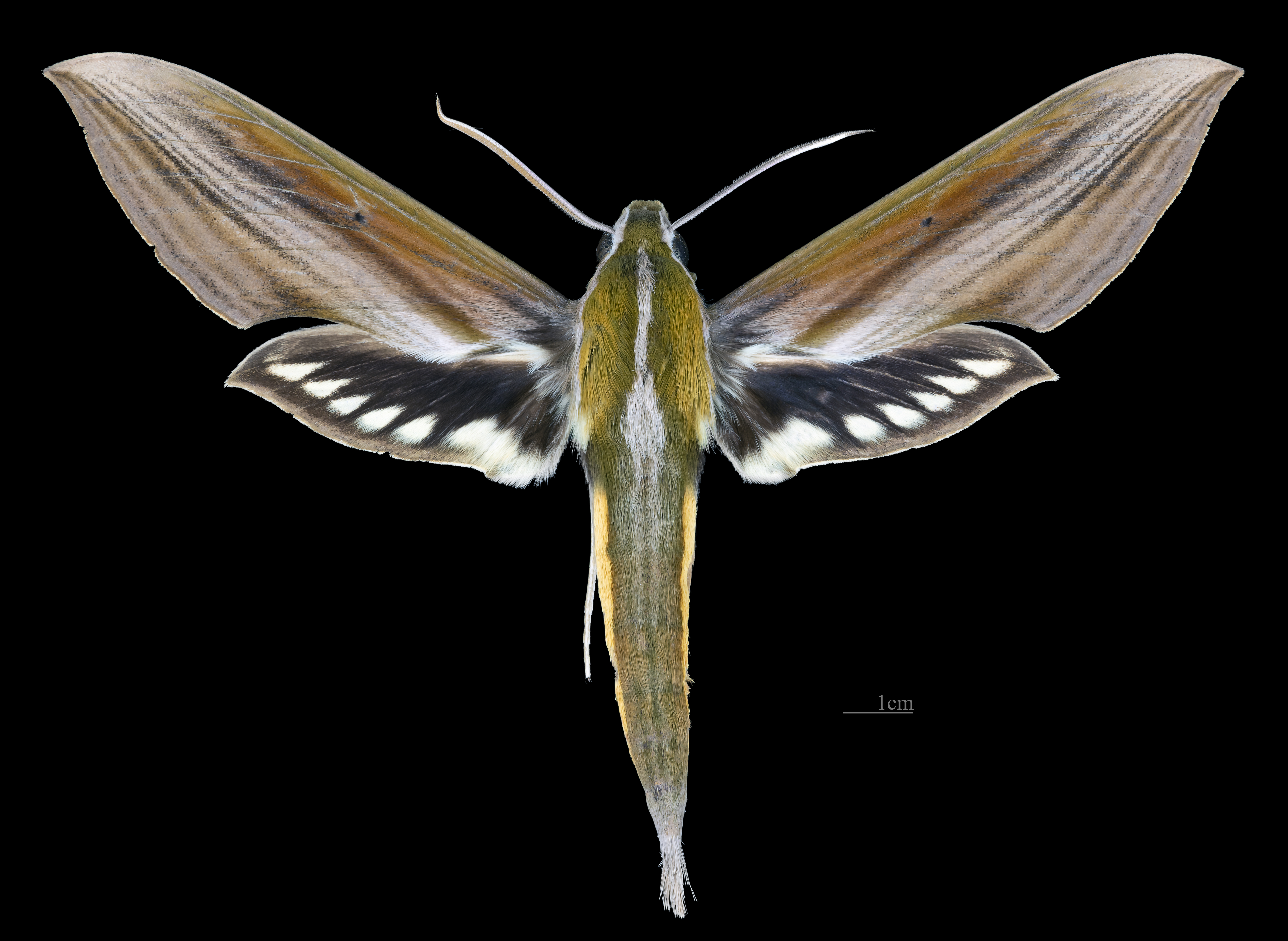 Xylophanes resta - Dorsal side Collection of the Mathematician Laurent Schwartz